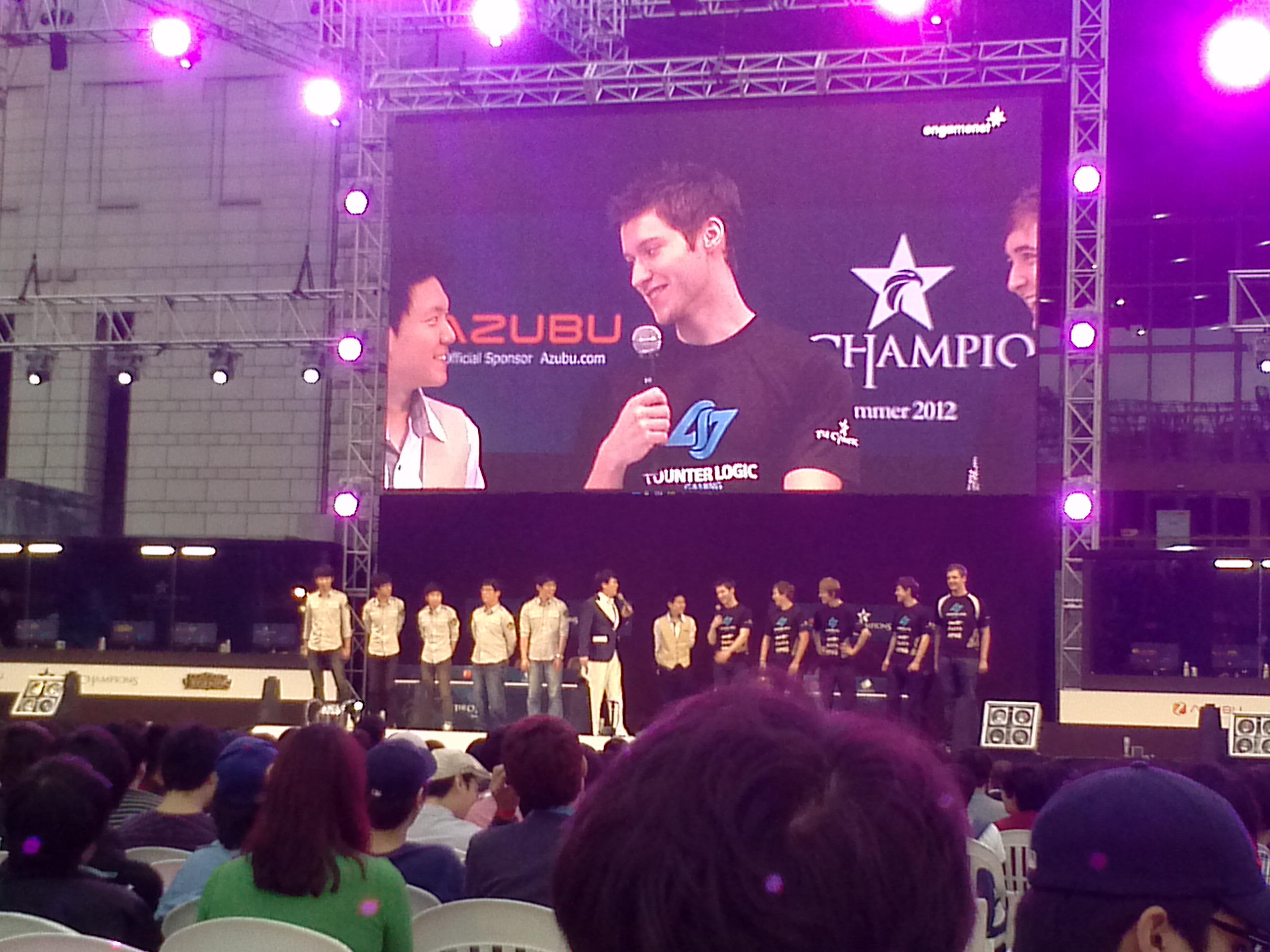 League of Legends teams of Azubu Frost and CLG EU at the OGN Champions finals 2012